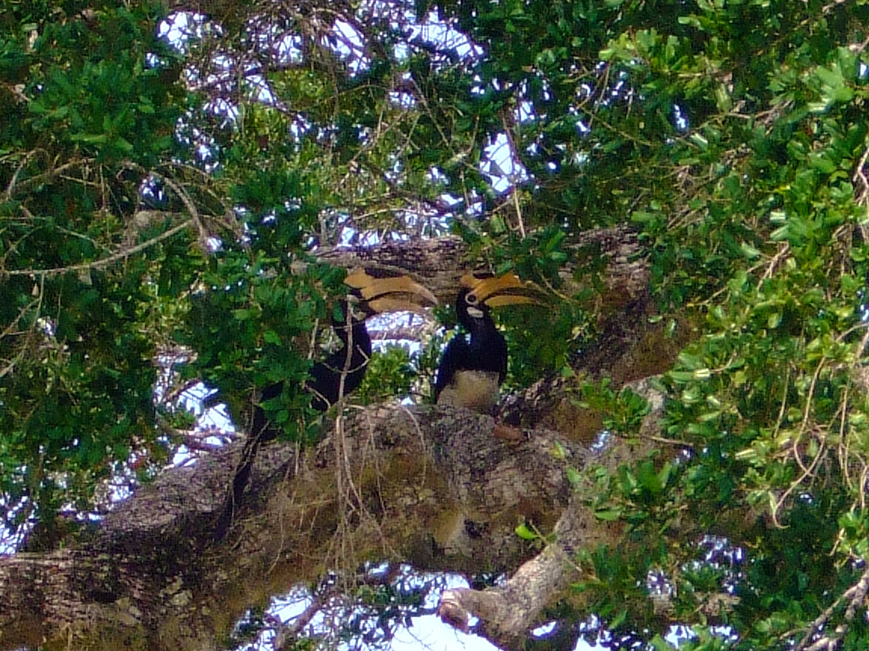 Anthracoceros coronatus (Malabar pied hornbill) in Yala National Park, Sri Lanka.